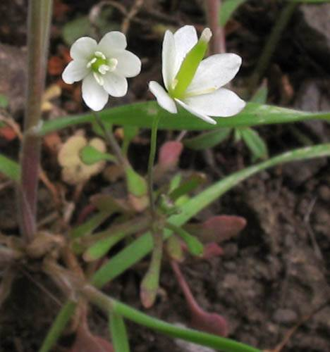 Meconella denticulata — Smallflower fairypoppy. On the Backbone trail below Triunfo Peak, in Circle X Ranch Park — within the Santa Monica Mountains National Recreation Area, California.